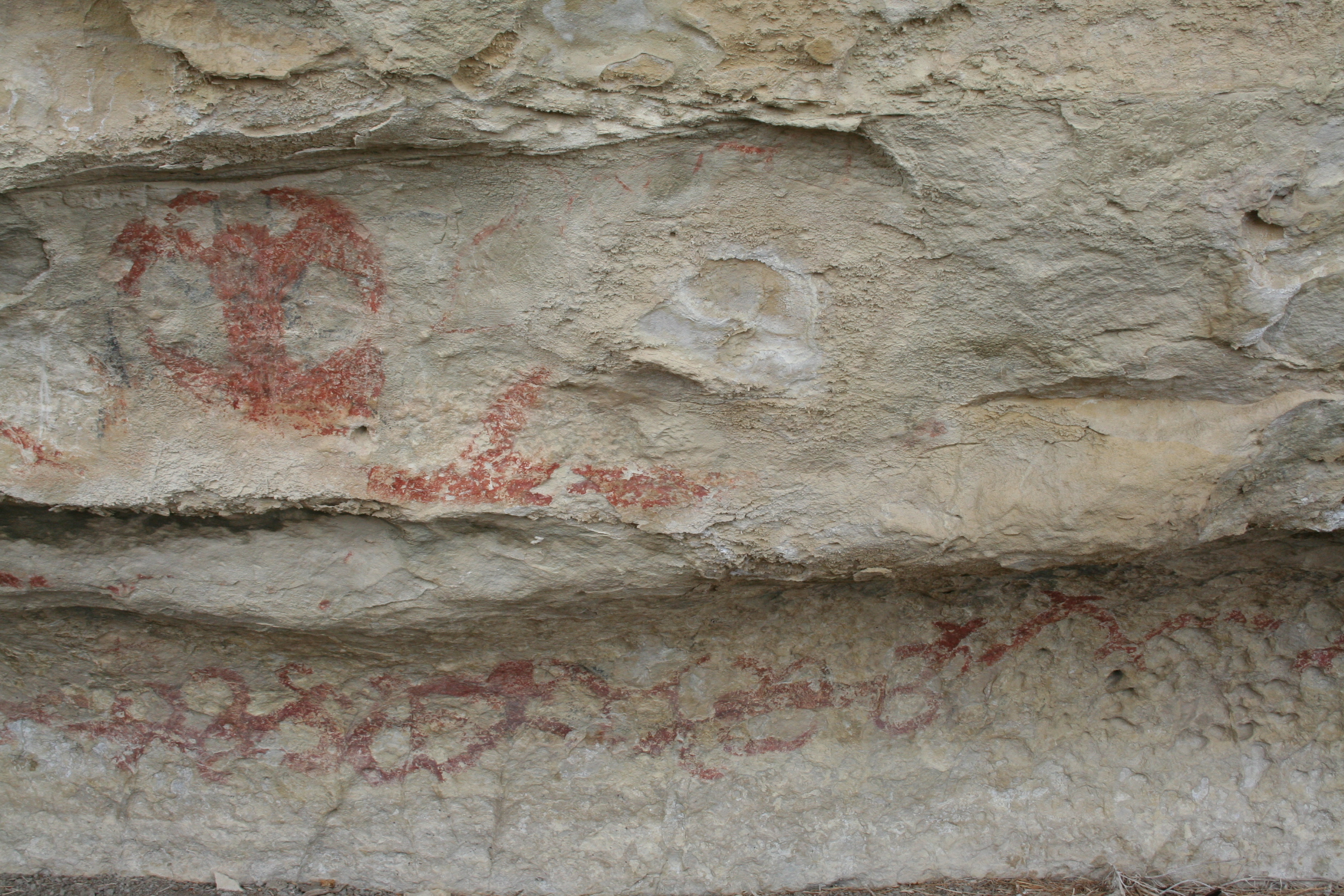 Part of the Takiroa Rock Art Site near Dunroon, Waitaki Valley, South Island, New Zealand